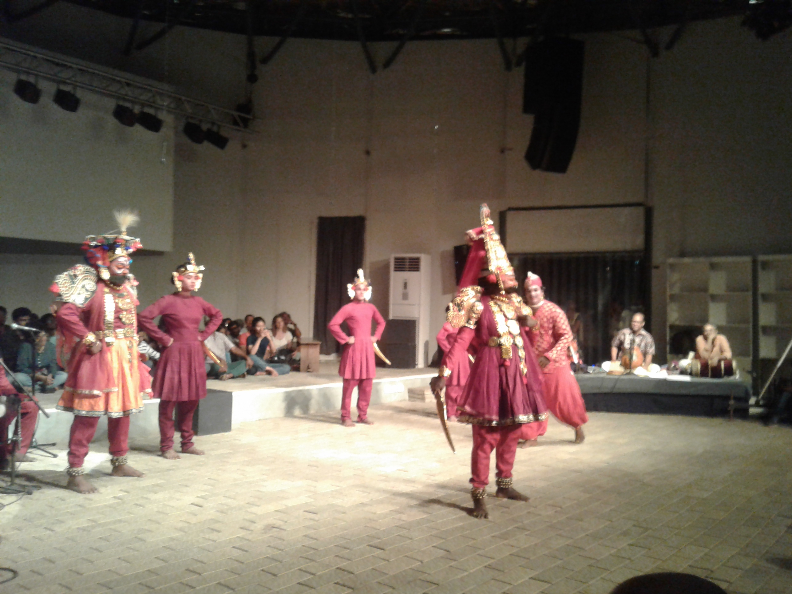 Karnatic Kattaikkuttu at Kochi muziris Biennale 2018